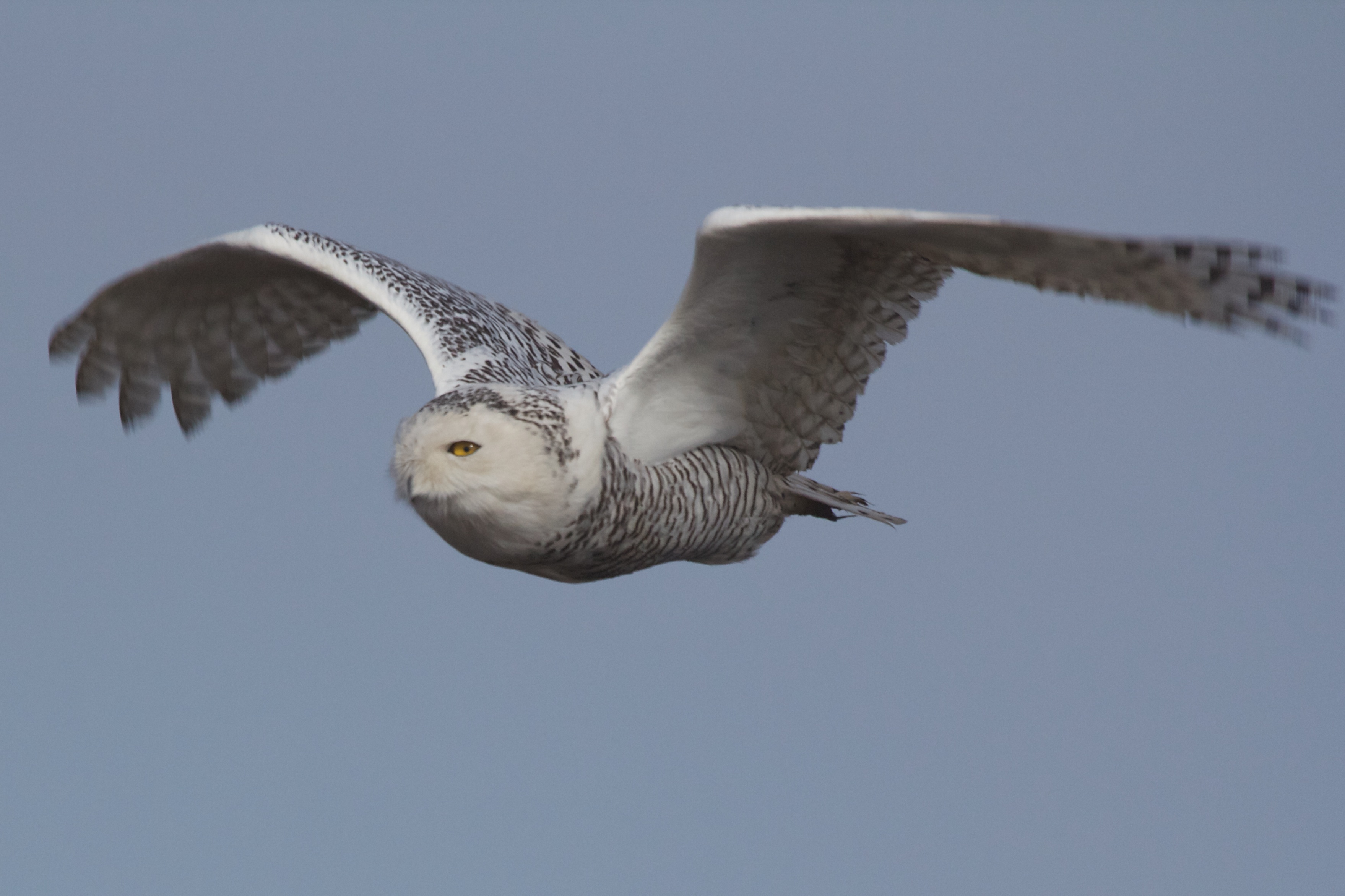 Snowy Owl Bubo scandiacus, Delta, British Columbia, Canada.